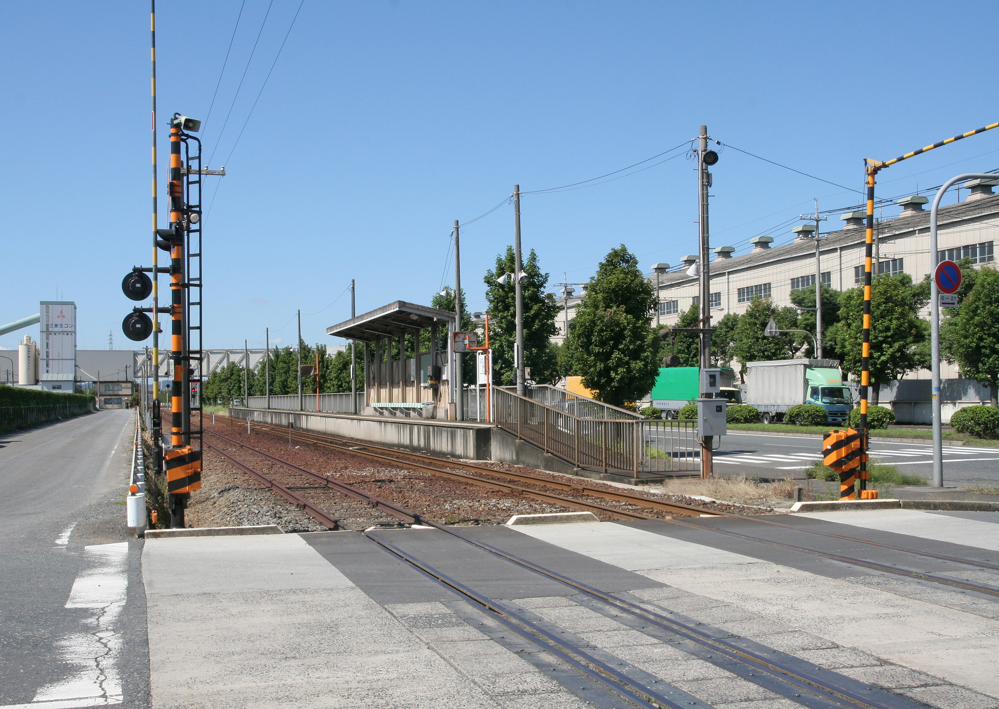 Mizushima Rinkai Railway Mizushima Main Line Mitsubishi Jikō-mae Station enclosure